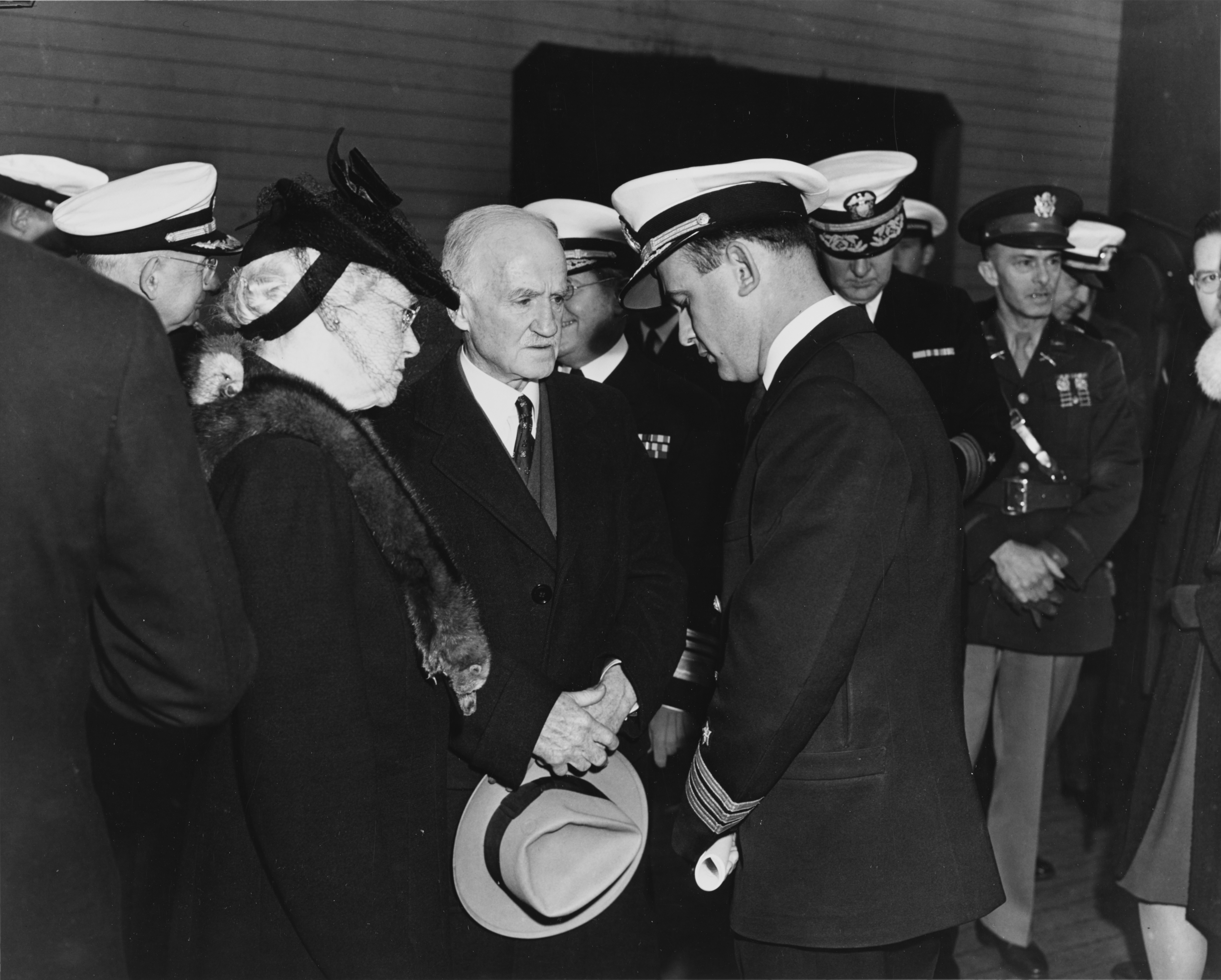 Commander Bruce McCandless, USN, relates the details of the battle off Savo Island and the death of Admiral Daniel J. Callaghan to Mrs. J. J. Raby, wife of Admiral Ravy and aunt of late Admiral Callaghan and to C. S. Callaghan, father of Admiral Callaghan.